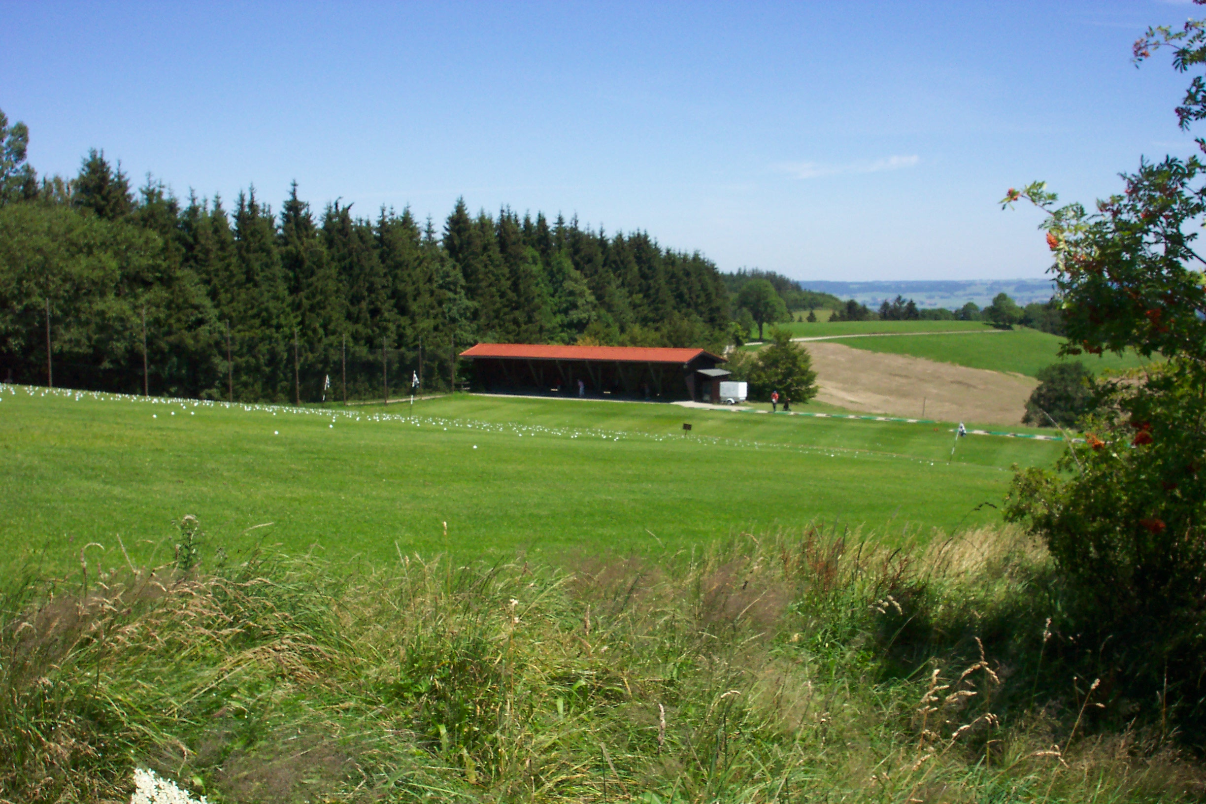 Driving Range of the golf course in Wiggensbach; the golf course offers the highest tee-off-place in Germany at a hight of 1.011 metres.